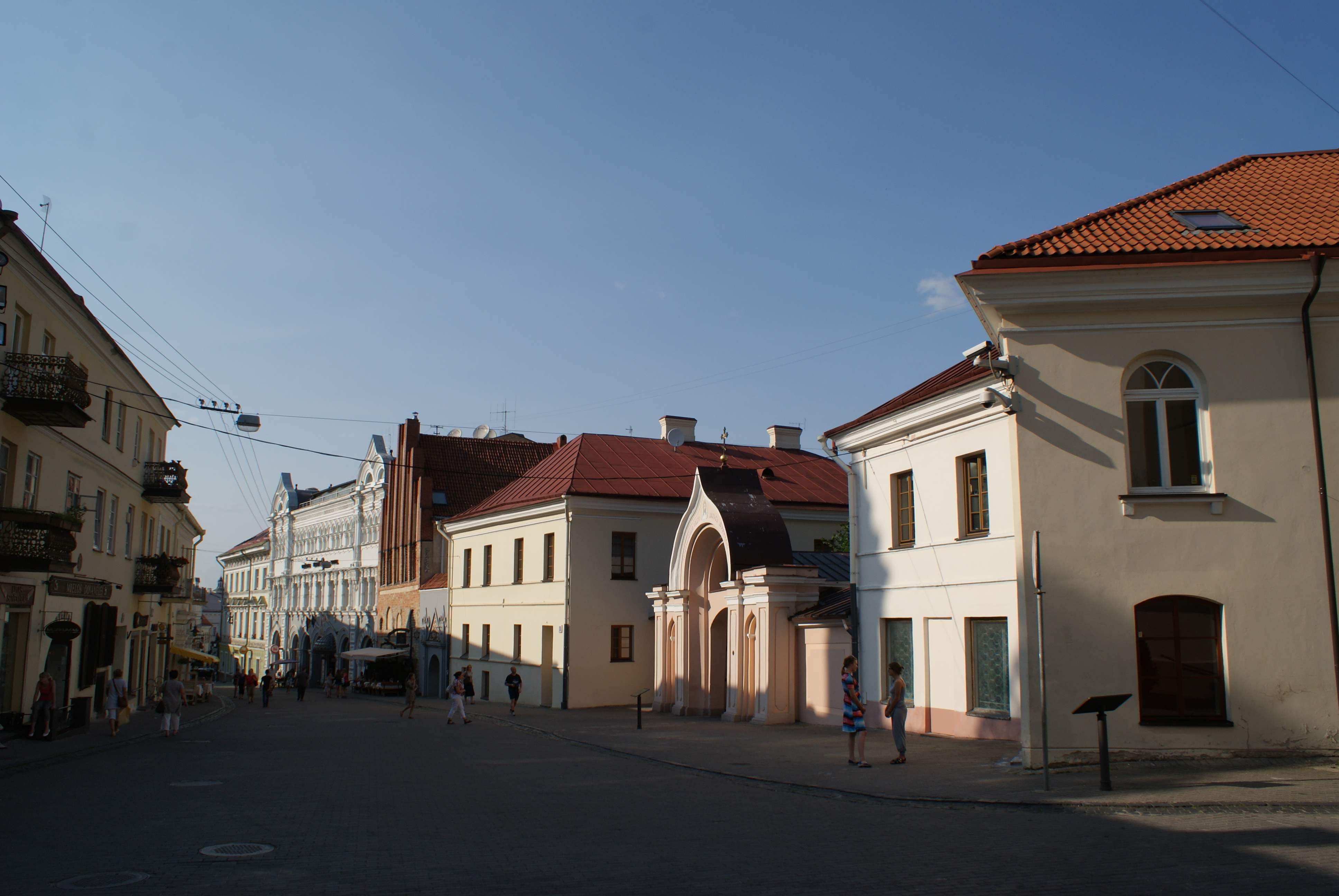 Vilnius